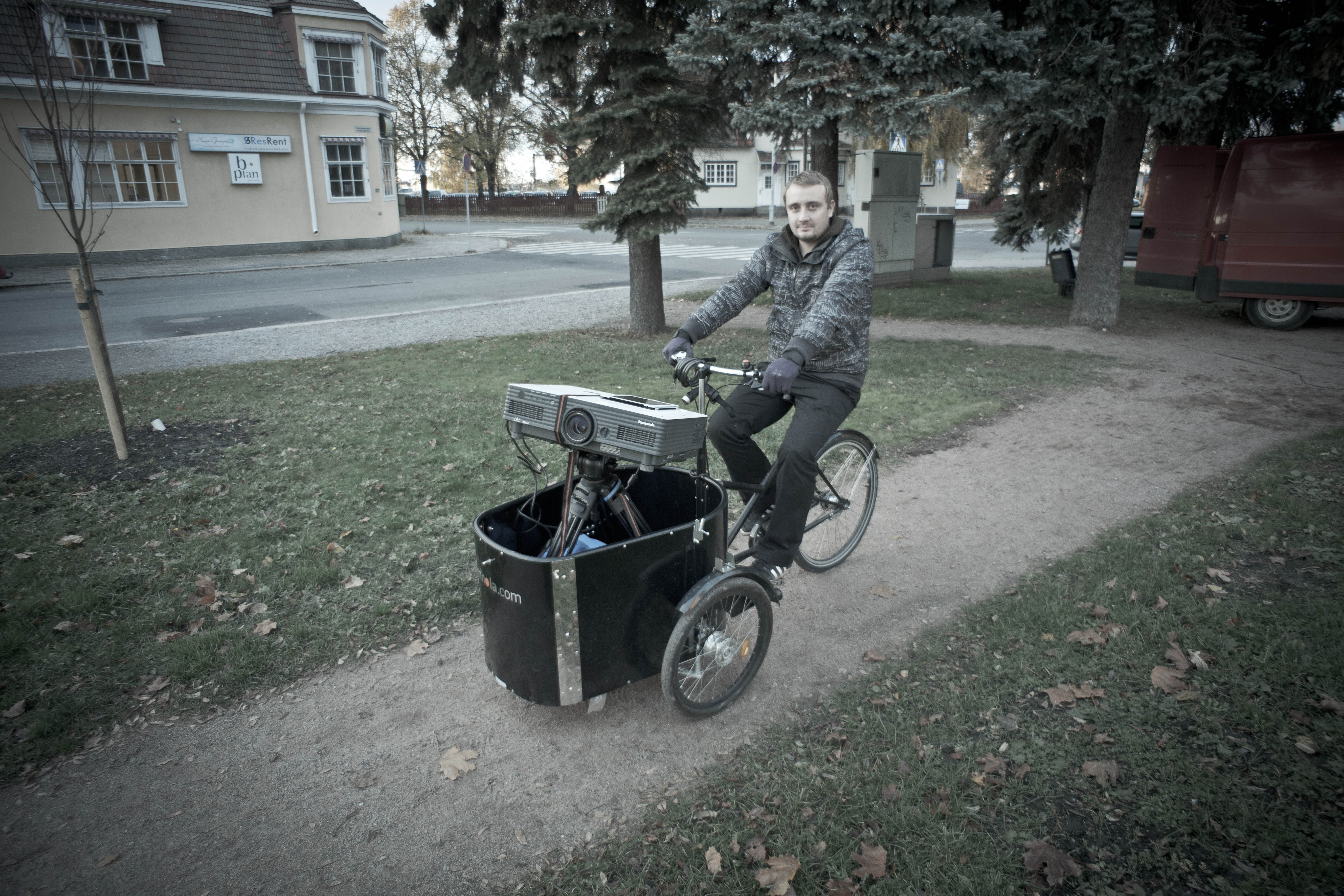 Guerilla VJ bike - a video projector is carried on a bike, in order to facilitate outdoor projections.